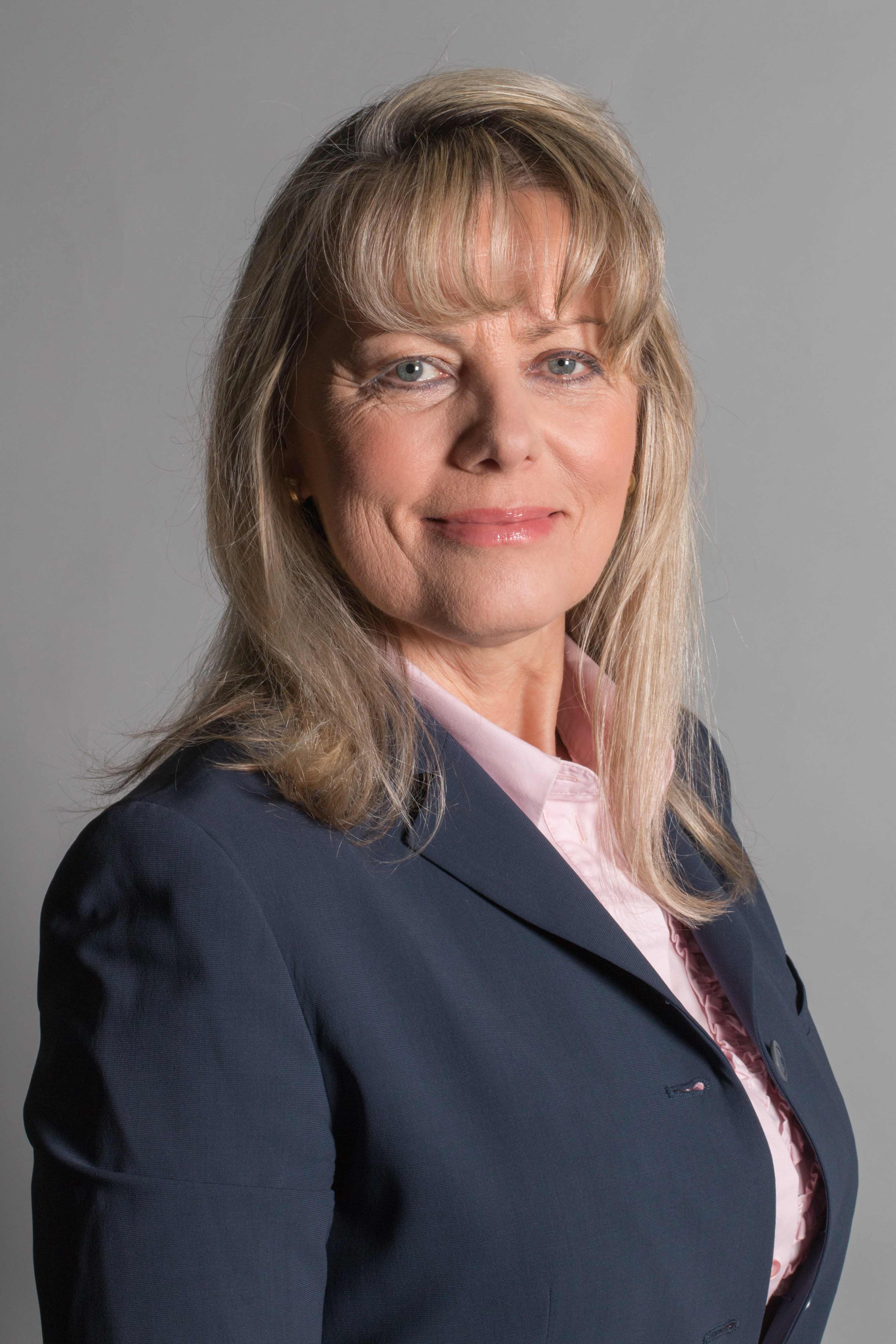 Lidia Joanna Geringer de Oedenberg, SLD-UP, Polish Member of the European Parliament